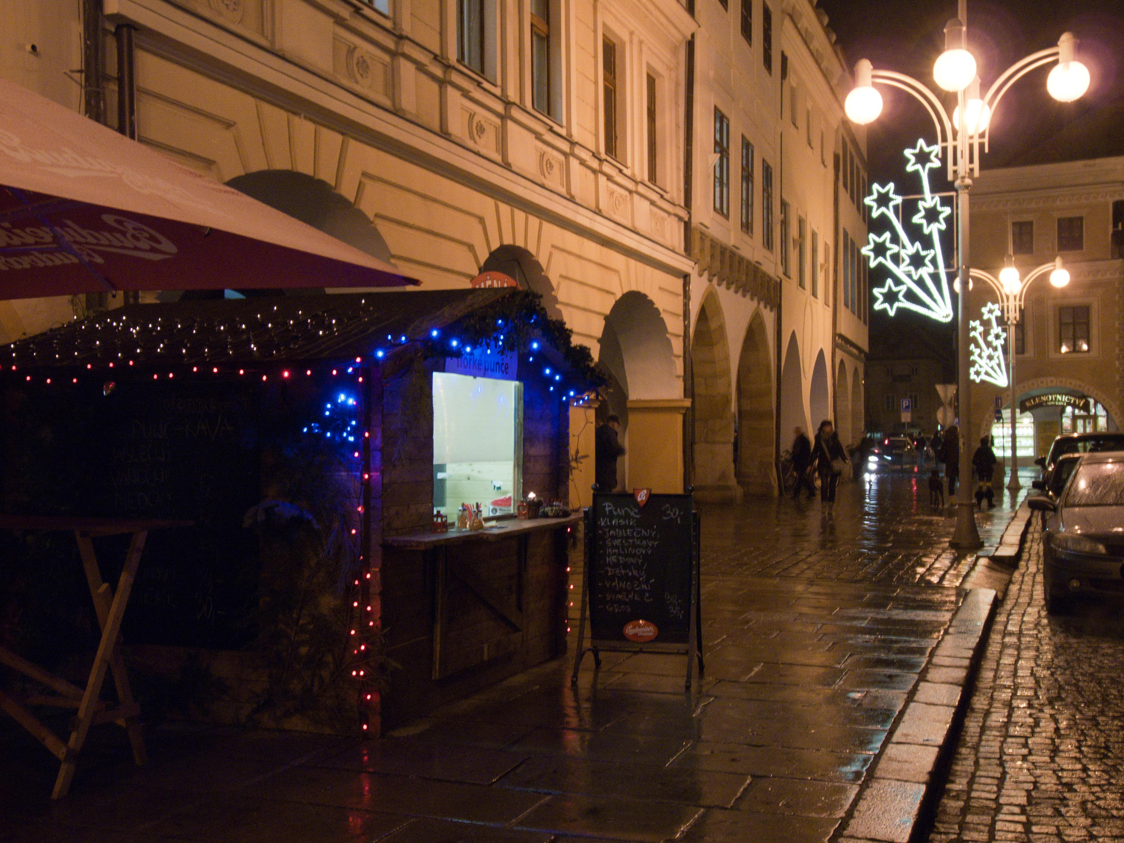 Market stand selling punch during the Christmas markets of 2012 in the city of České Budějovice, Czech Republic.